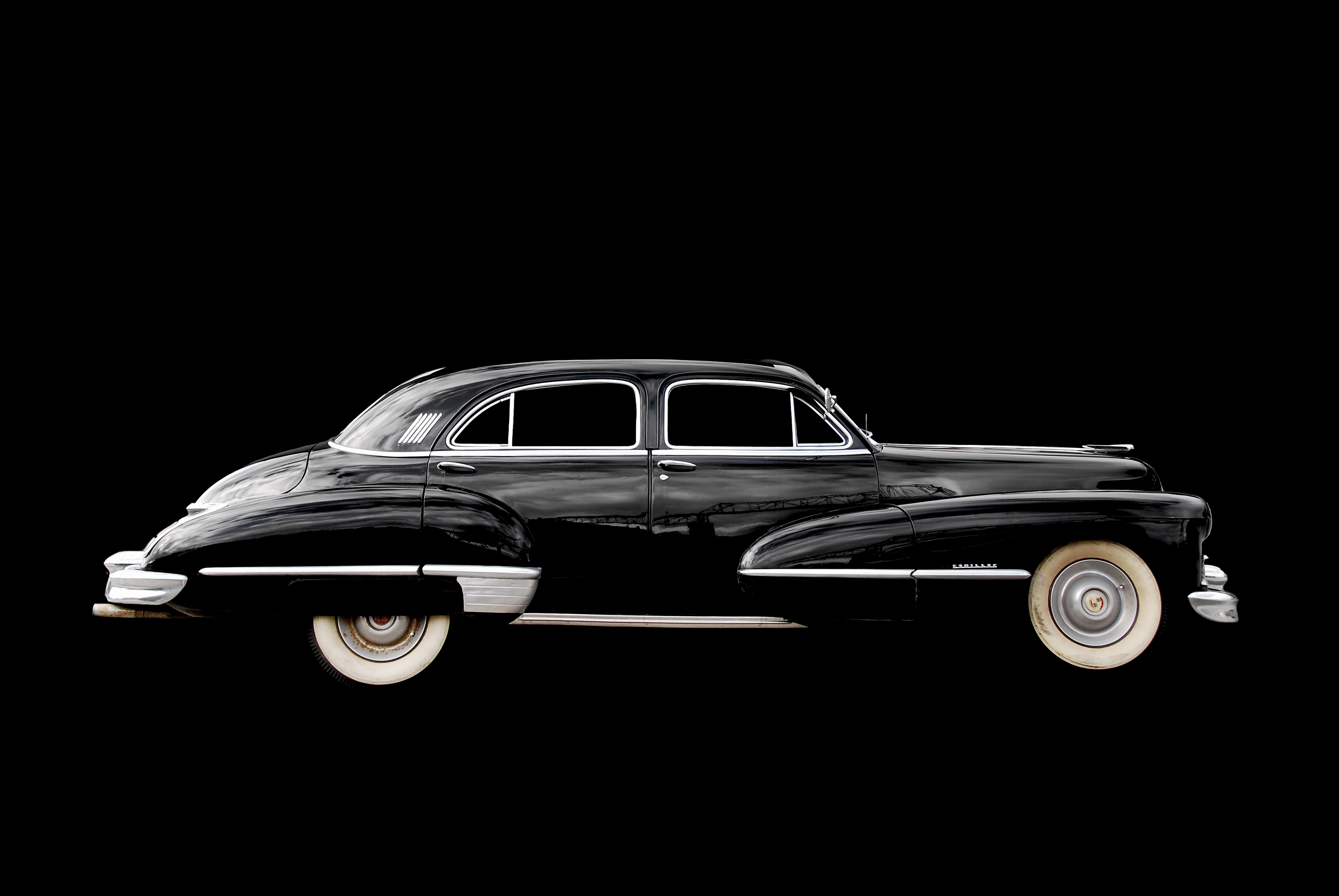 Photo of a black 1947 Cadillac Fleetwood